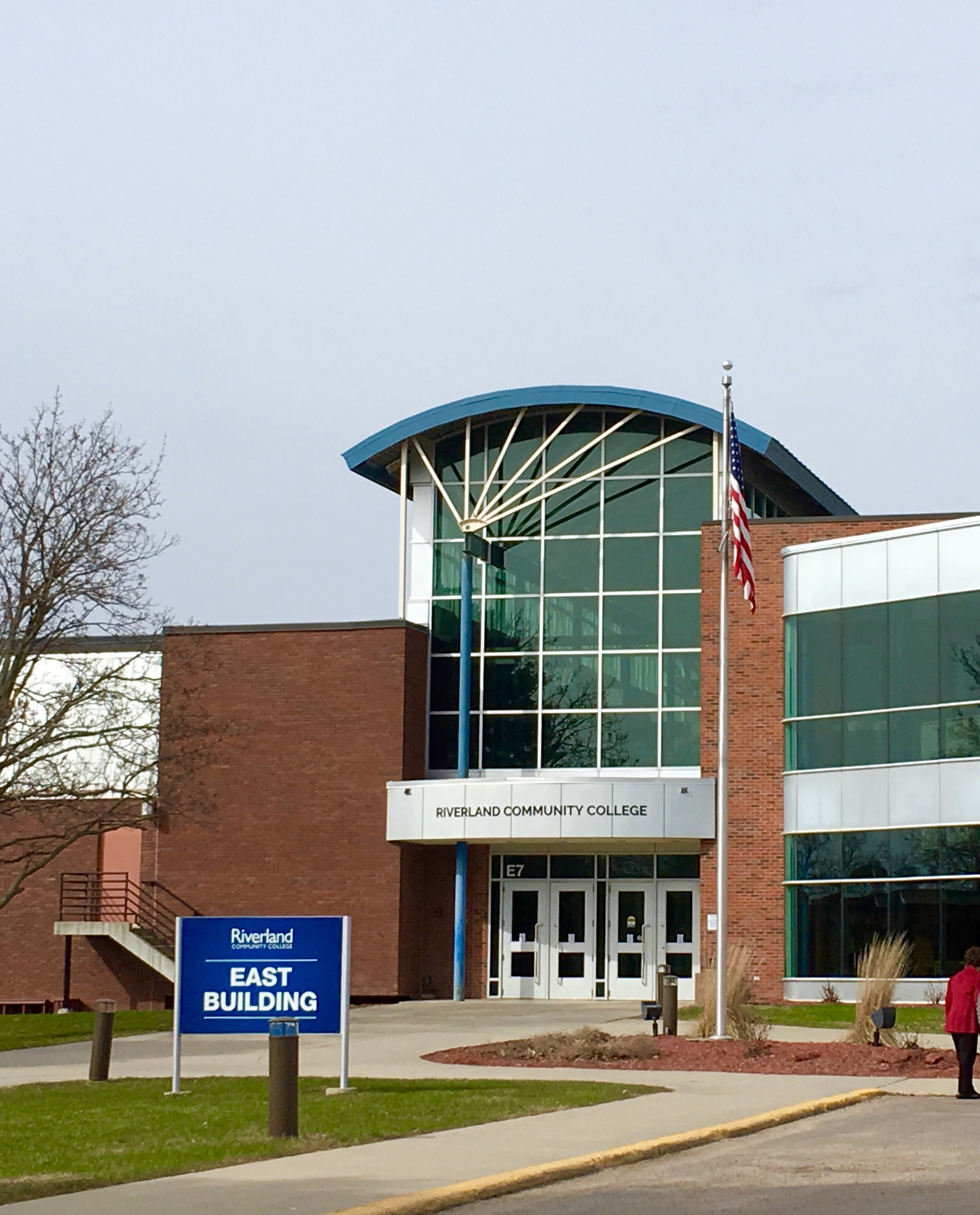 The largest campus of Riverland Community College is located in Austin, Minnesota